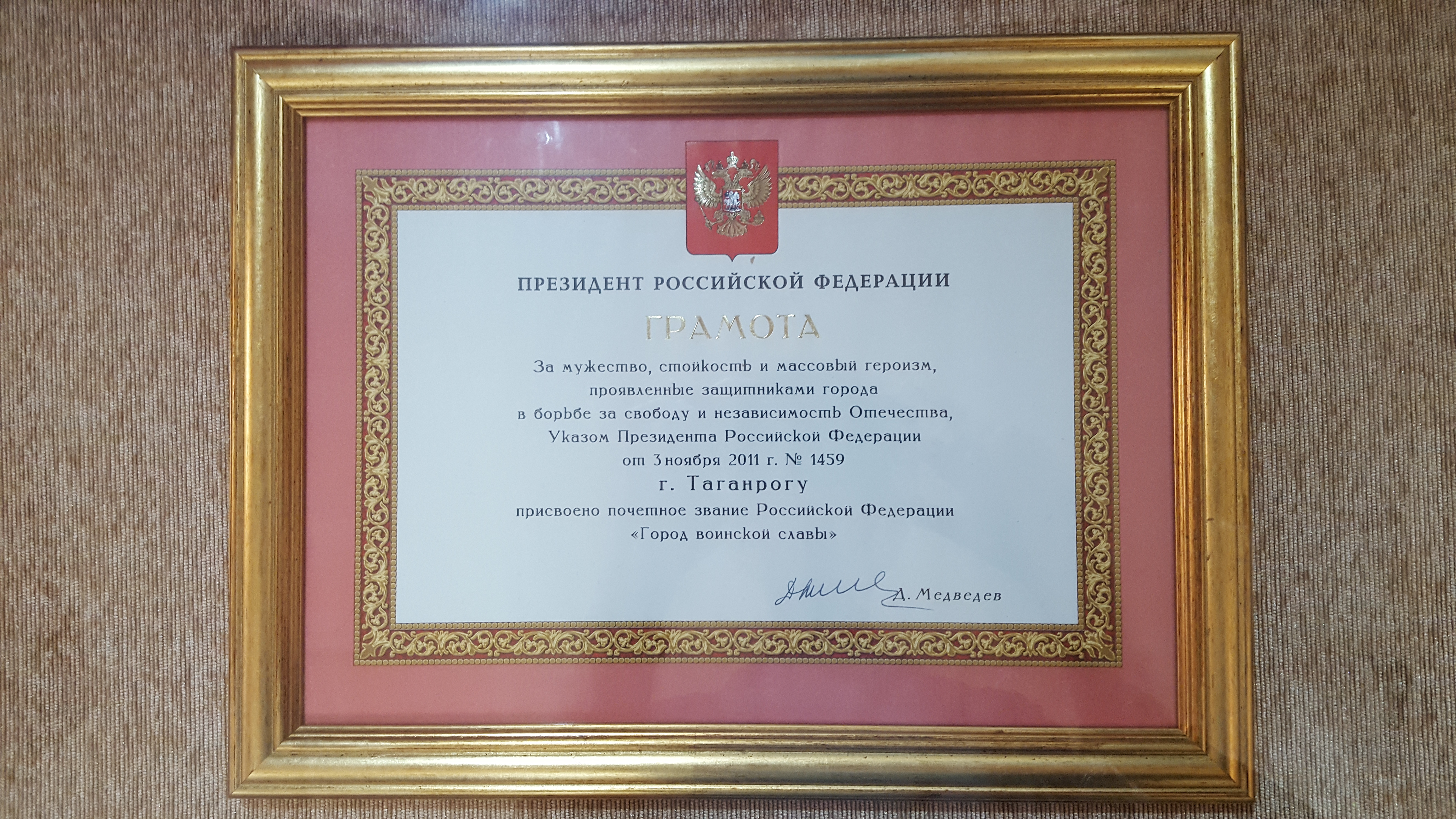 City of Military Glory certificate in the Taganrog museum of local lore and history.